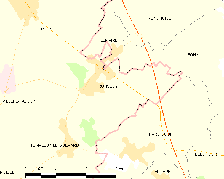 Map of French municipality Ronssoy